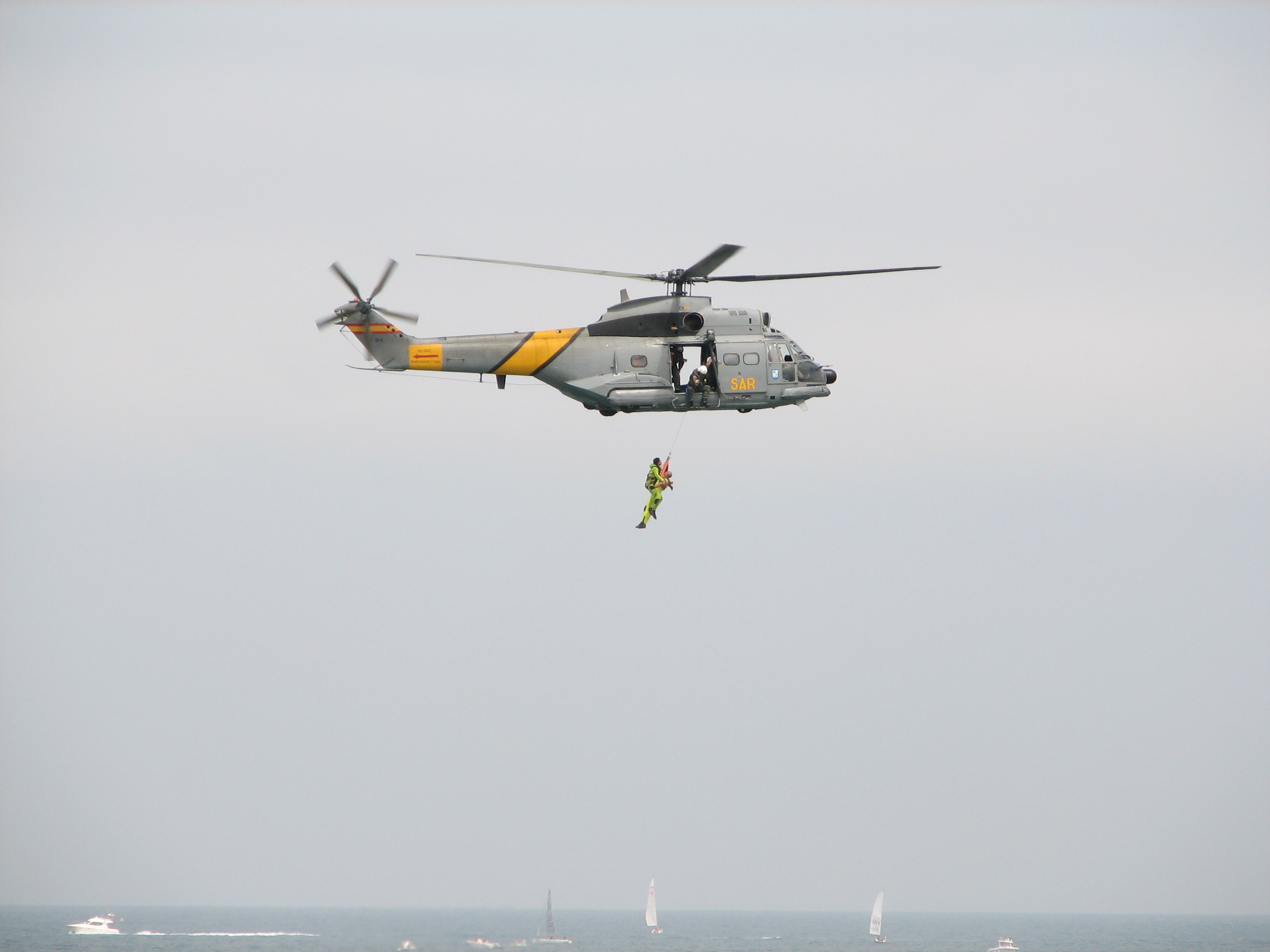 Aérospatiale SA 330 Puma SAR of the Spanish Air Force in Gijón Air Show 2007. Gijón, Spain. 2007-07-29.